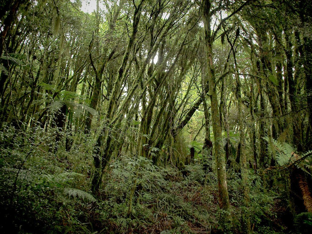 Te Pureora forest, South Waikato District, Waikato, NZ